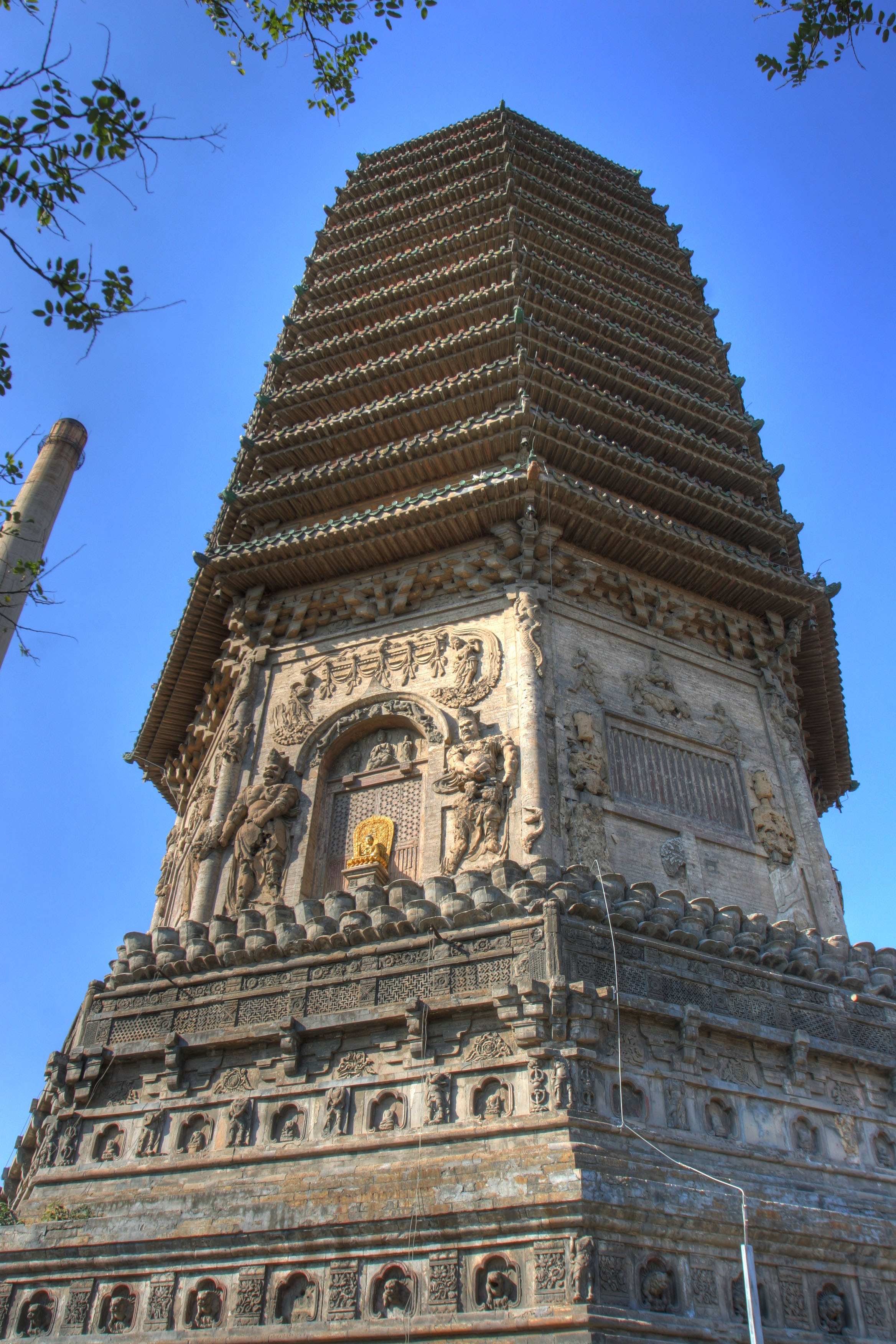 People's Republic of China Beijing Tianningsi Tianing Temple by David McBride